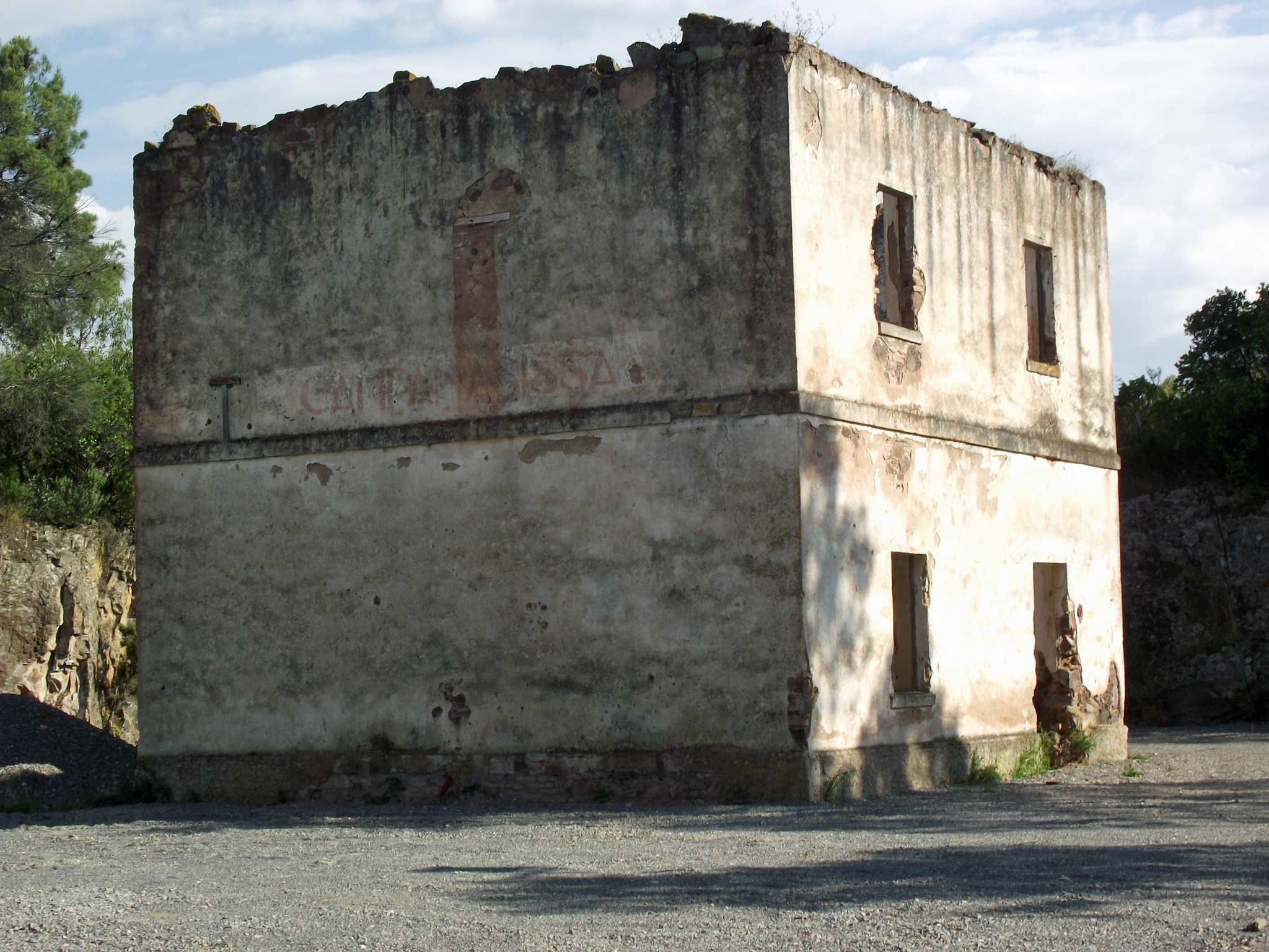 The ruins of the passenger building of the former train station of Campanasissa, along the former railway Siliqua-San Giovanni Suergiu-Calasetta in Sardinia, Italy, closed in 1968.